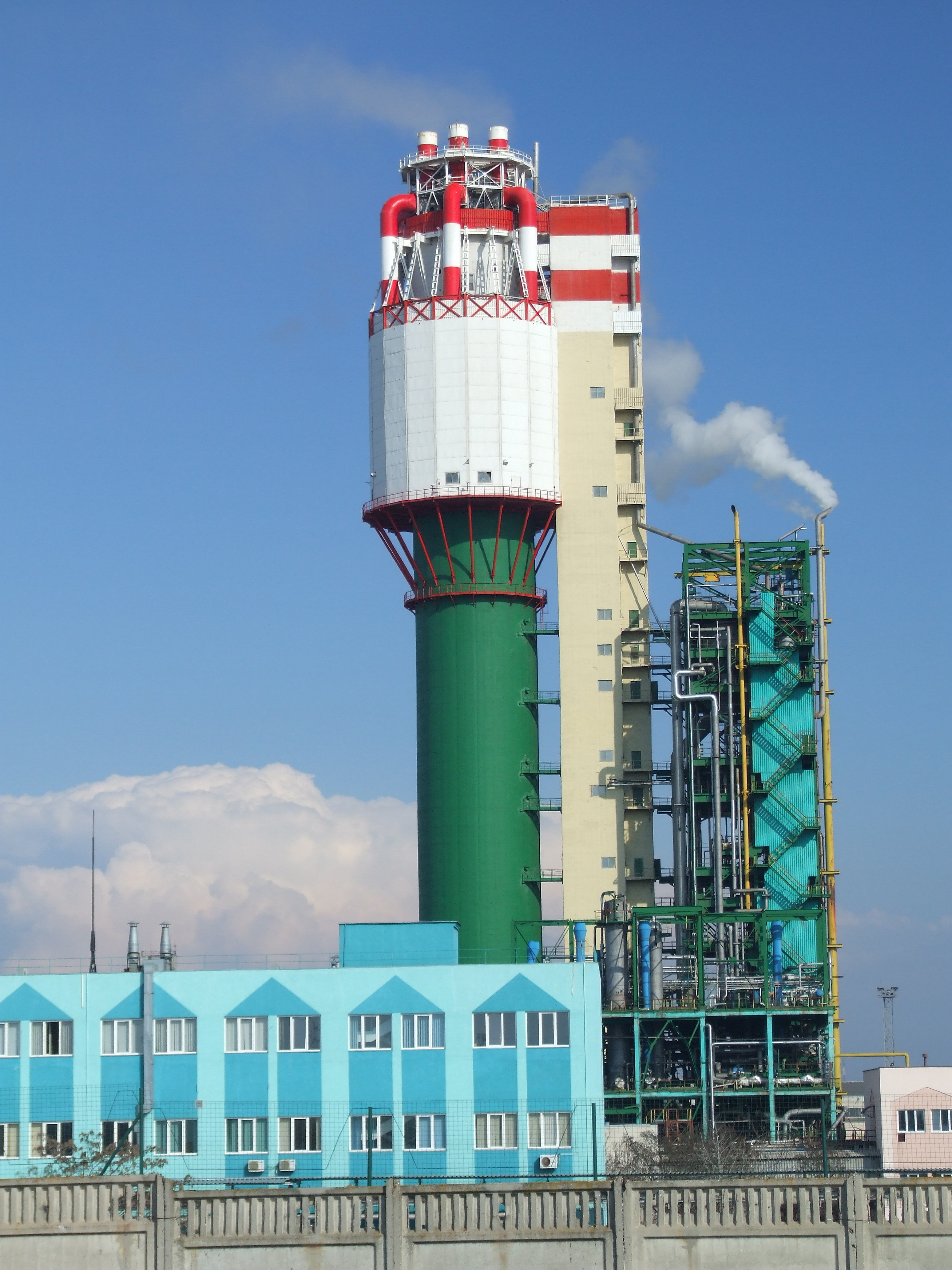 A tower of Odessa Port Plant, Kominternivskyi Raion, Odessa Oblast, Ukraine